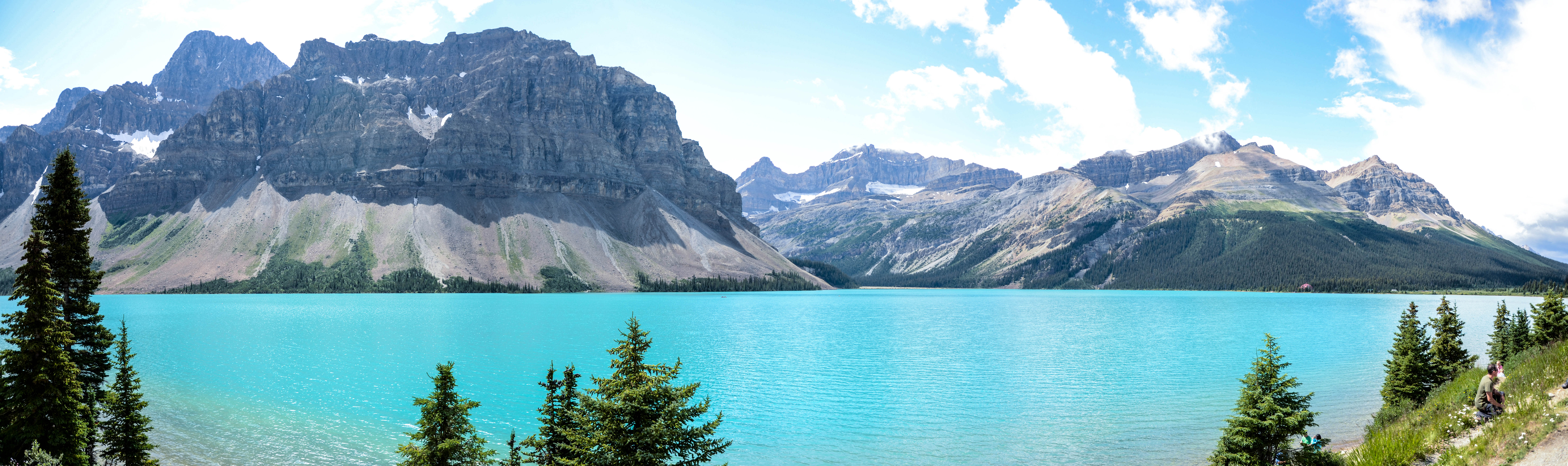 Panoramic image of Bow Lake in Banff National Park, Alberta